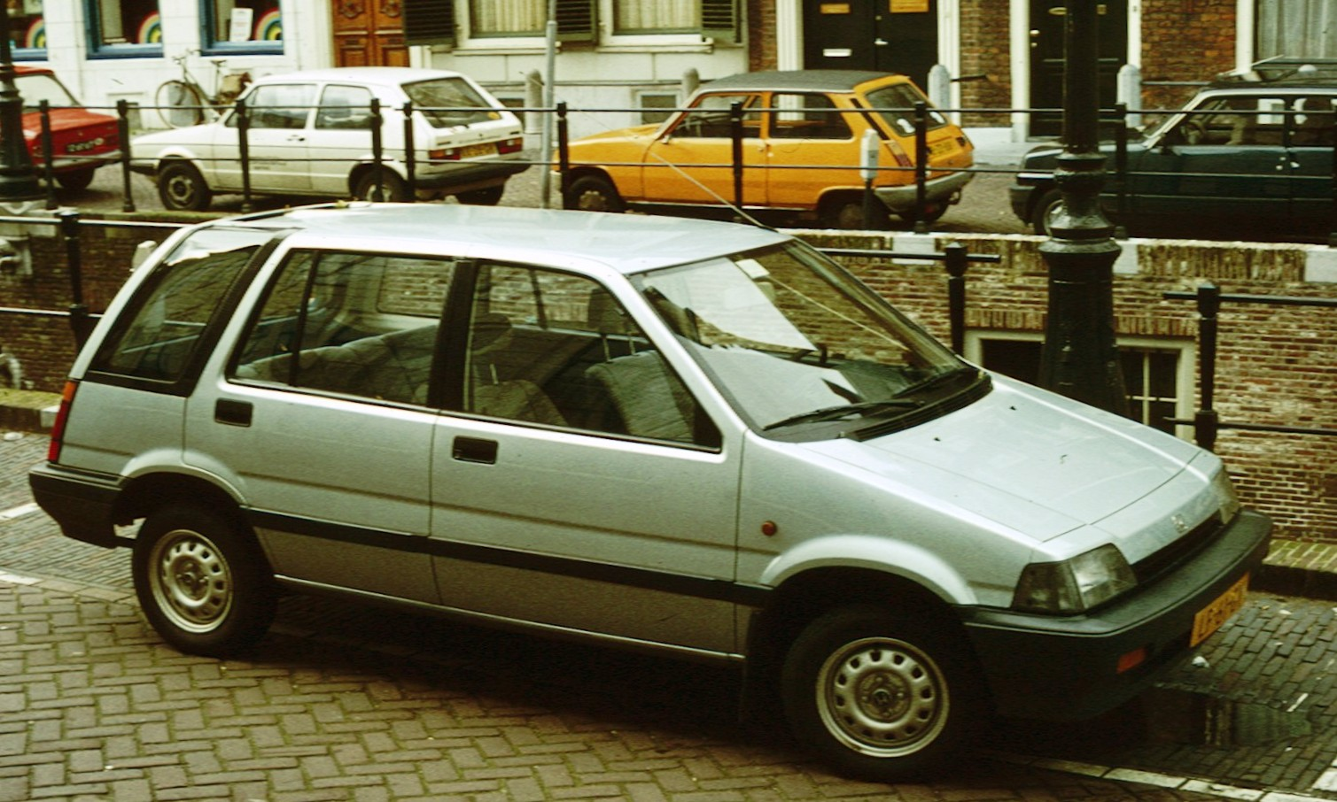 Honda Civic Shuttle by a city center canal 1984